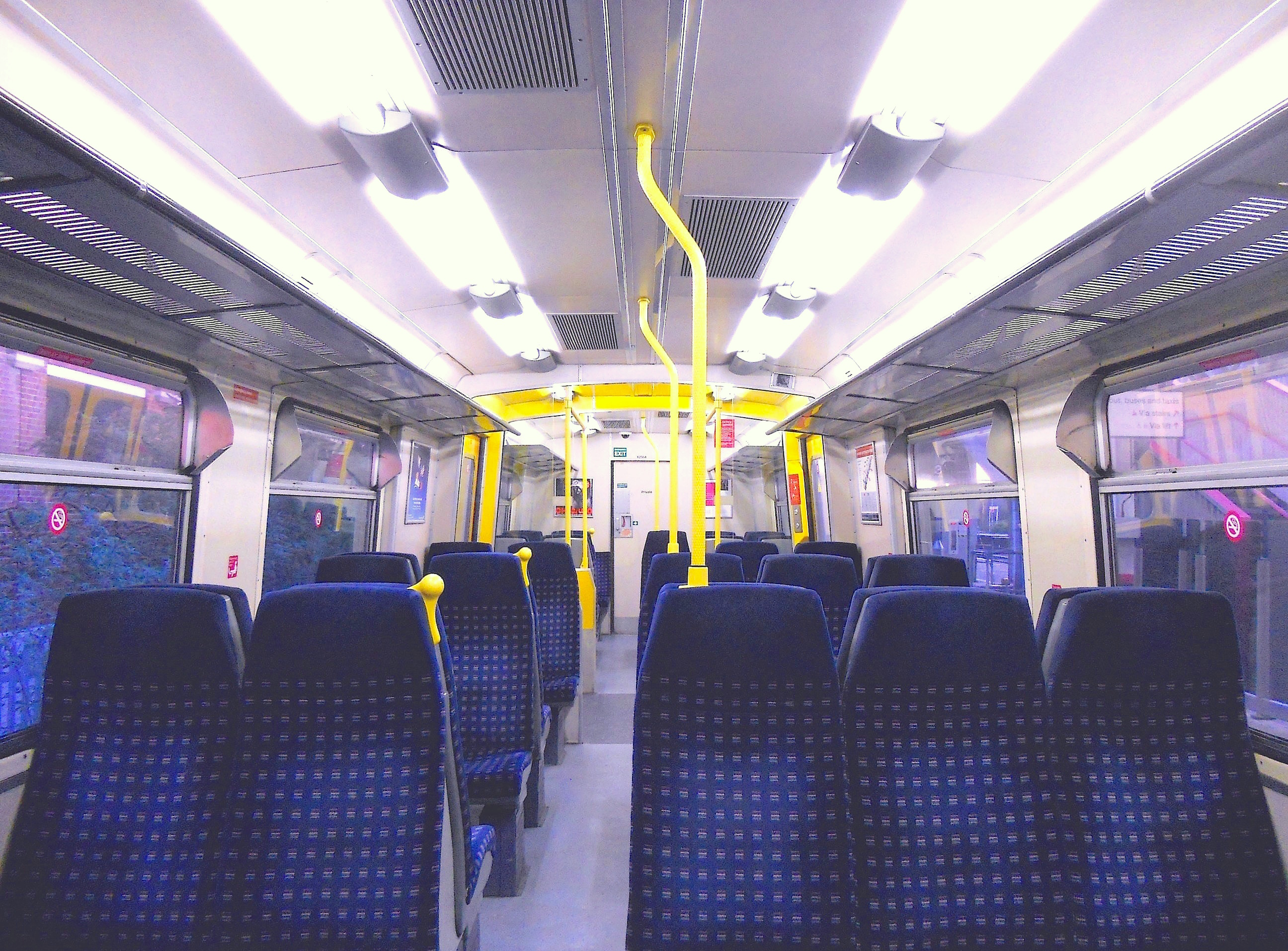 The interior of a First Capital Connect refurbished Class 313